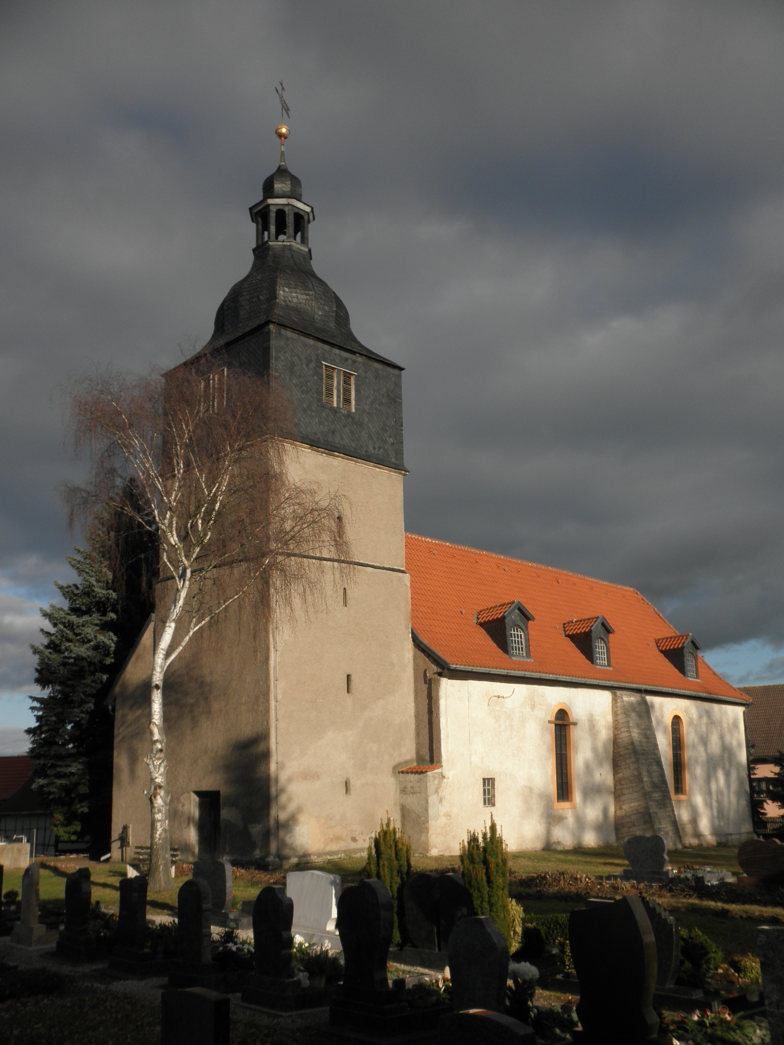 Church in Bothenheilingen in Thuringia